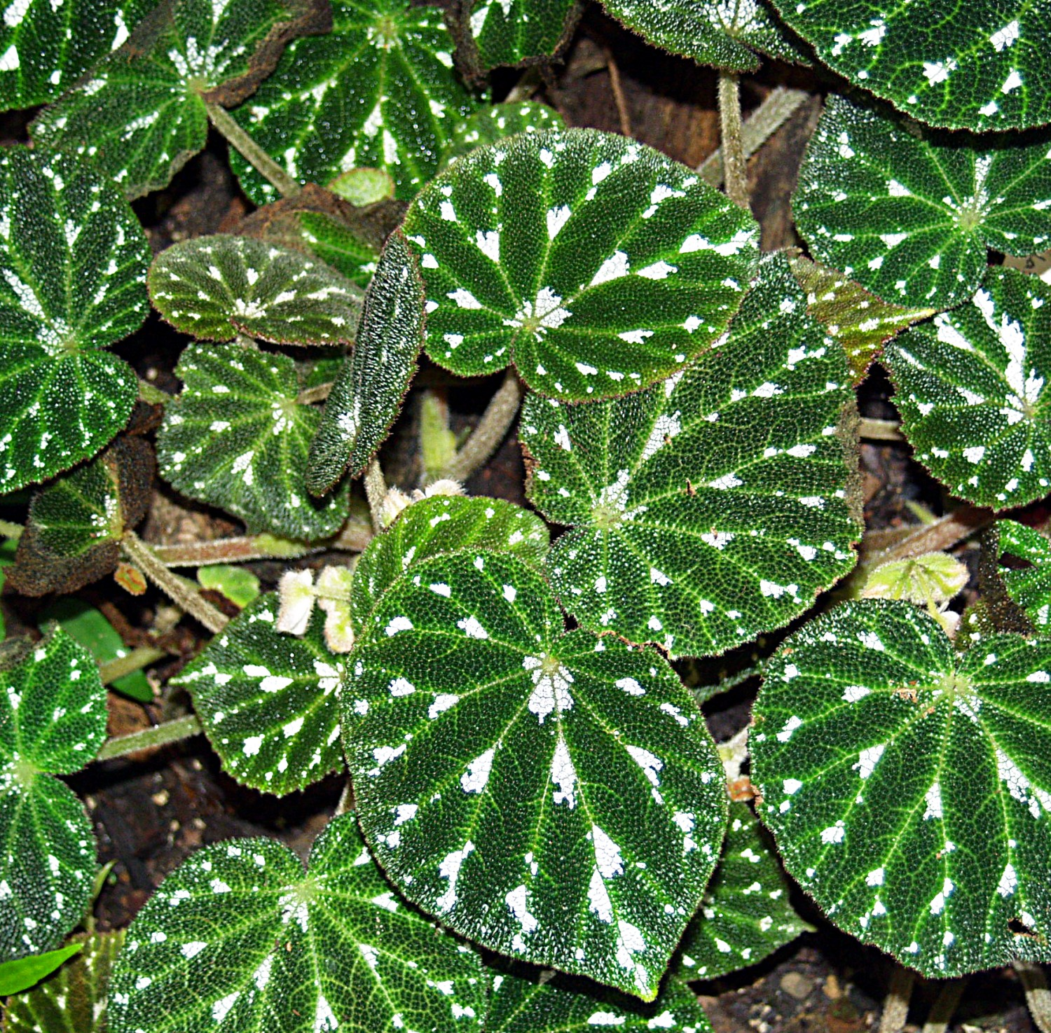 Leaves of Begonia pustulata at Botanical Garden Cologne („Flora“)